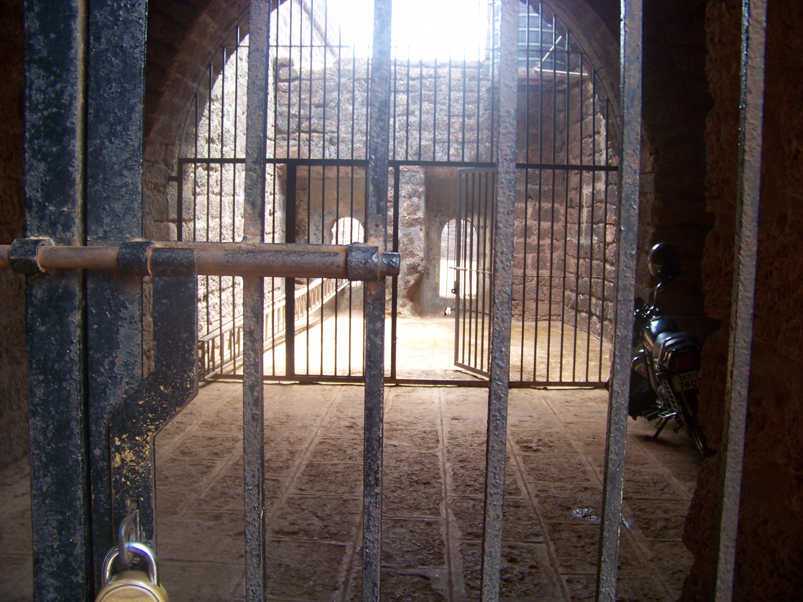 Fort Aguada, Goa Prison